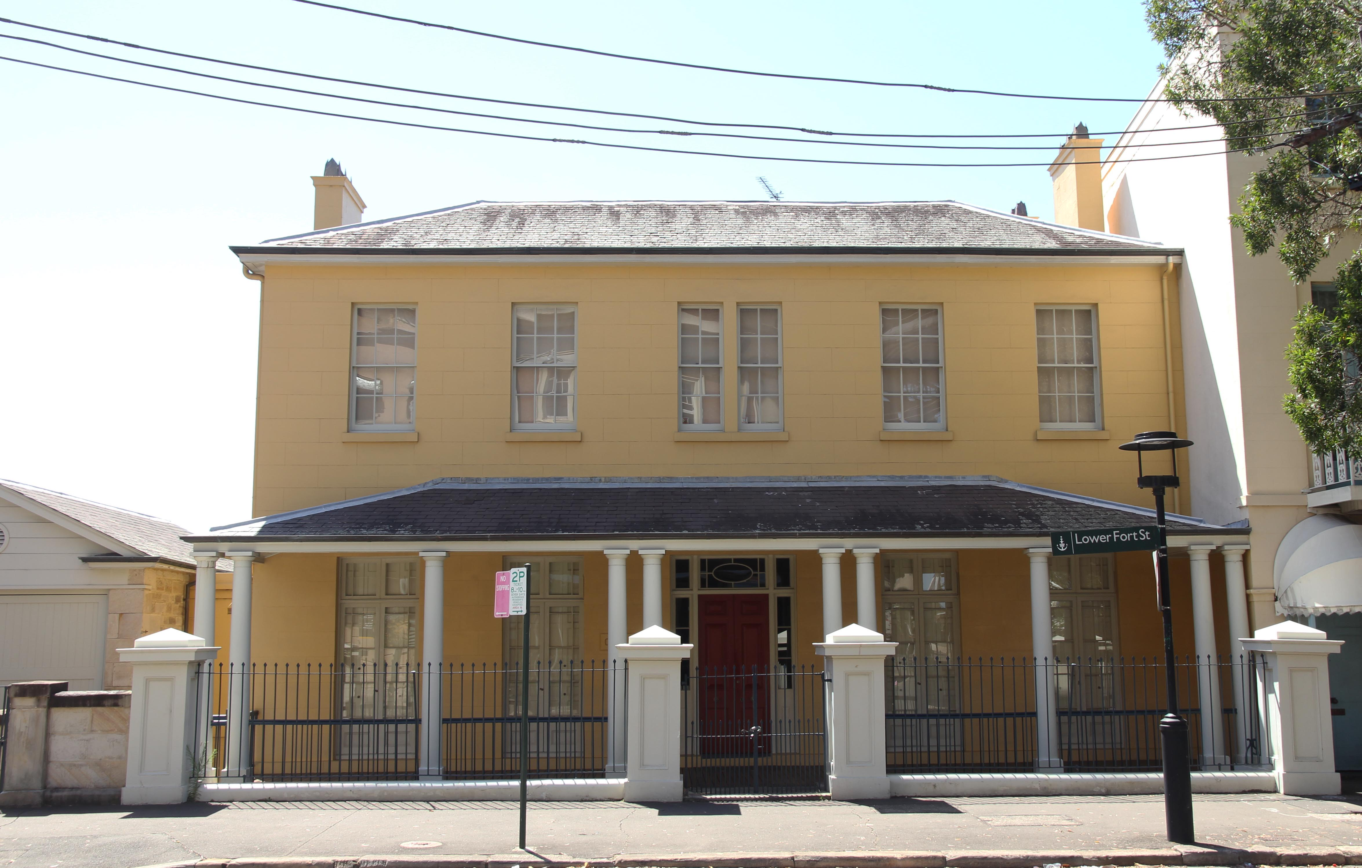 Clydebank, 43 Lower Fort Street, Millers Point in the City of Sydney, New South Wales, Australia. House constructed 1824-25 for Robert Crawford, Principal Clerk to the Colonial Secretary of NSW.